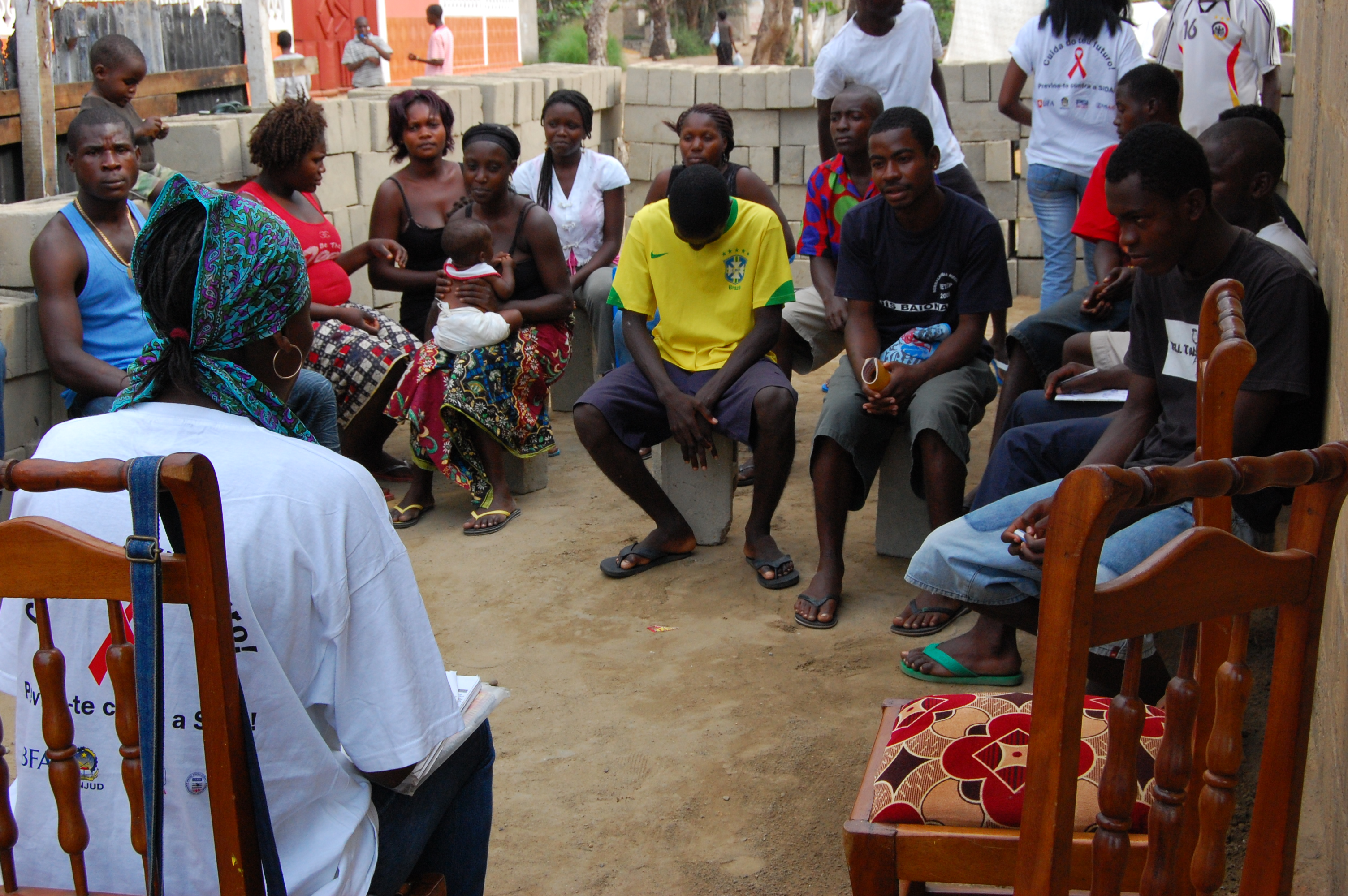 Photo Credit: USAID.